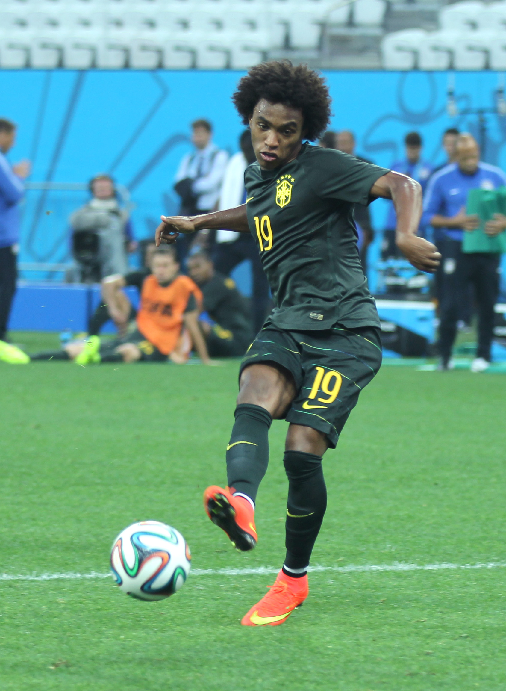 Brazil national team training for 1 day before the start of the first game of the 2014 World Cup qualifier against Croatia 2014-06-11